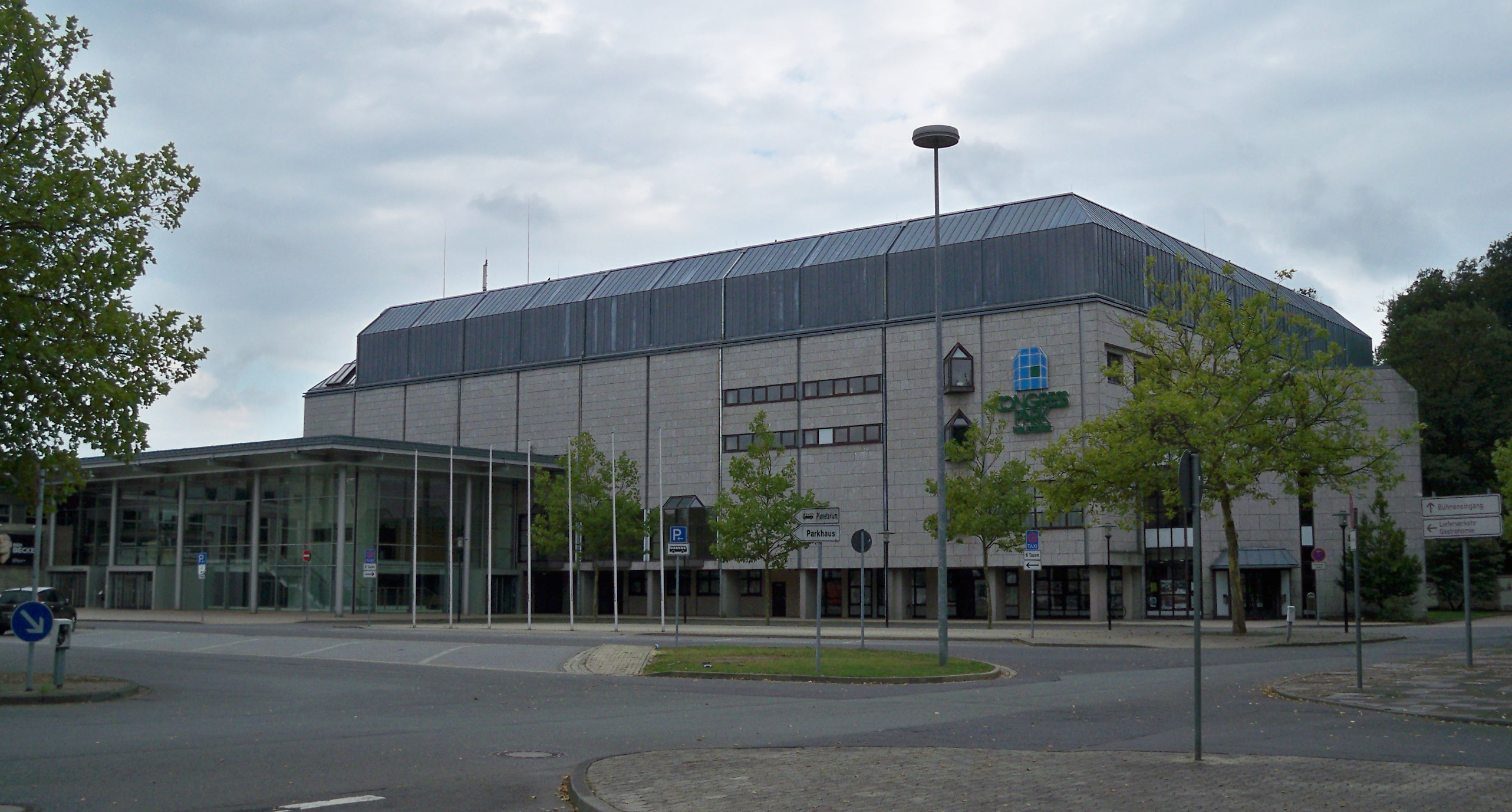 Wolfsburg, Lower Saxony, CongressPark, event centre, viewing southwards